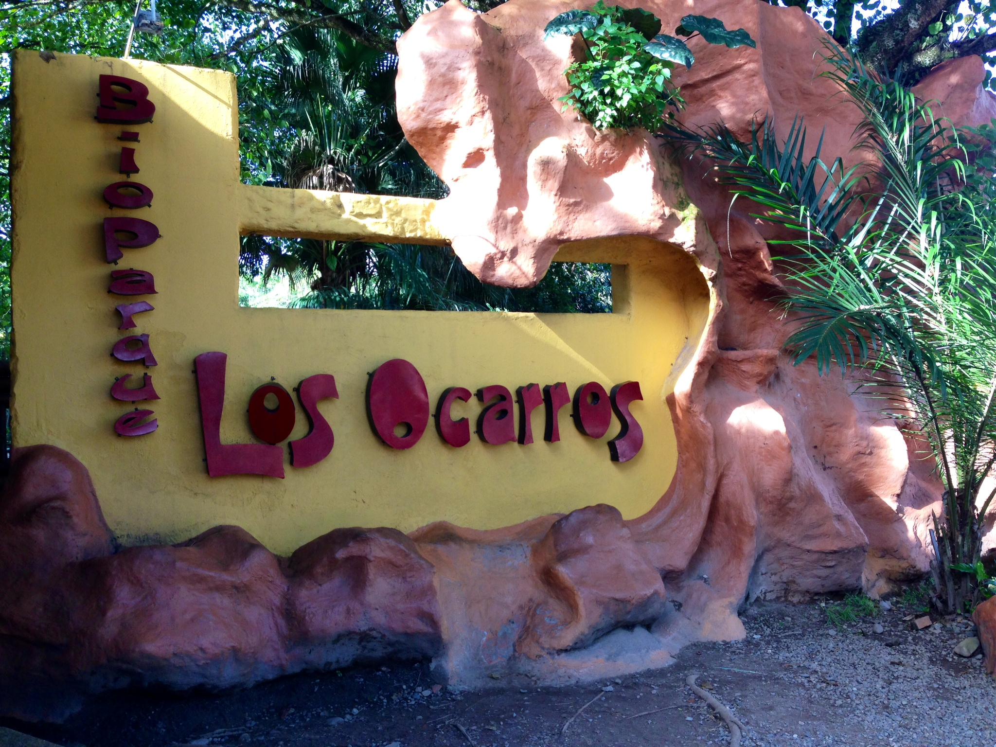 Entrance sign to the Los Ocarros zoo park